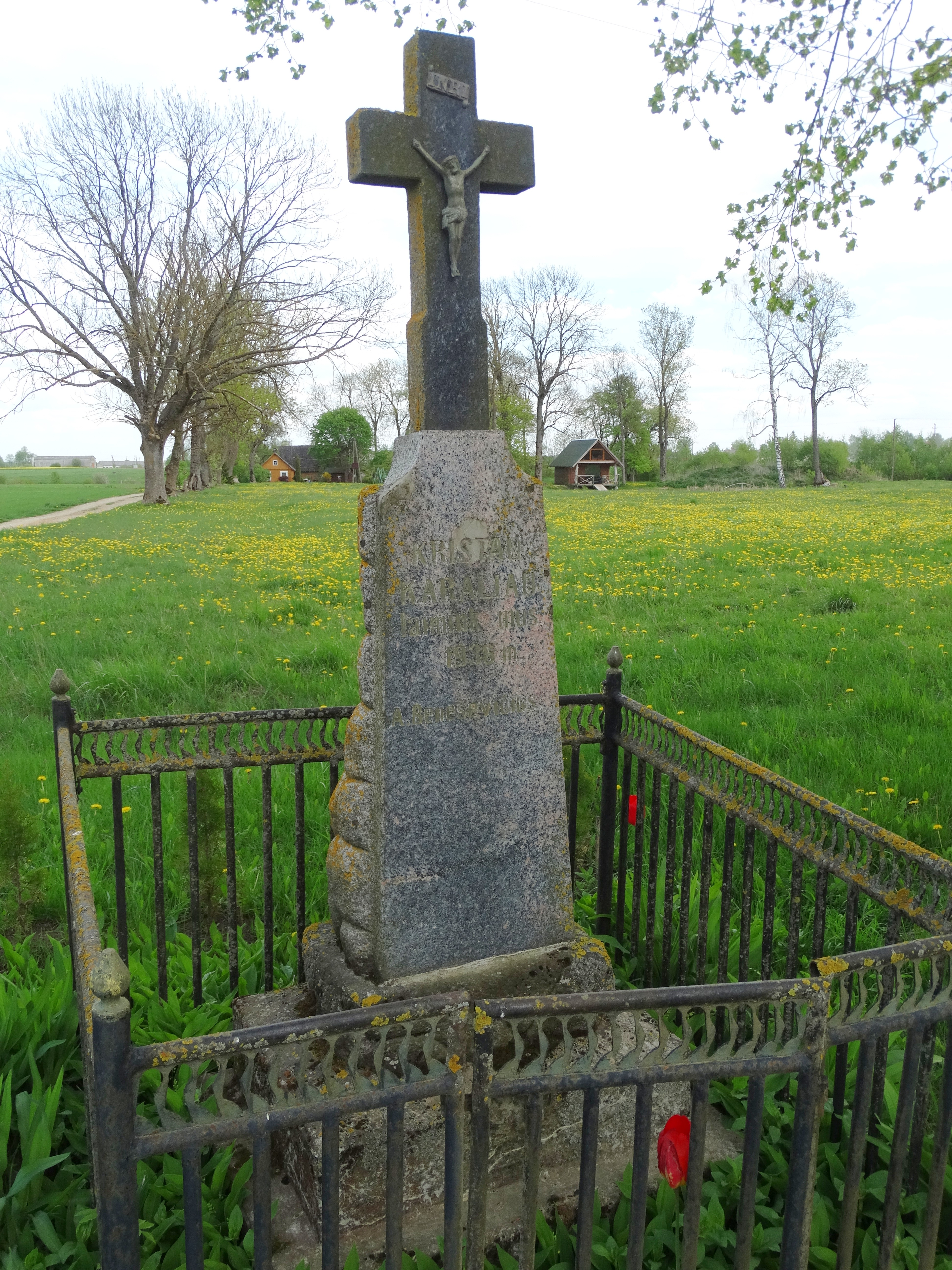 Viešvilė, Radviliškis District, Lithuania